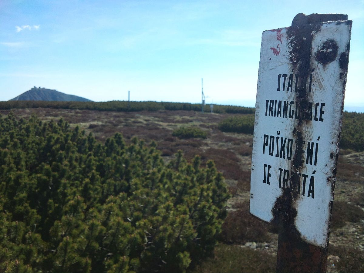 Trig point on Studniční hora in Giant Mountains